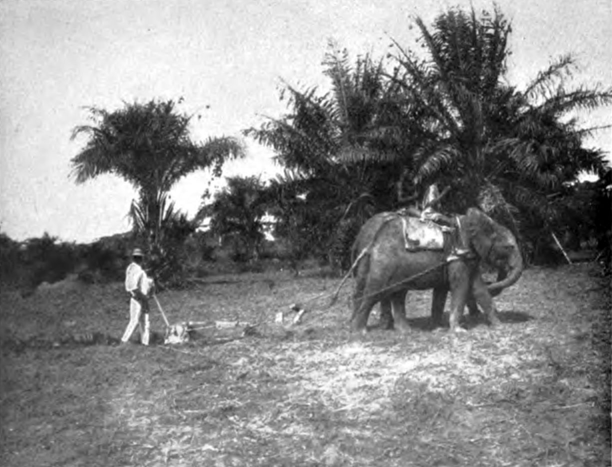 a wild-born African elephant Loxodonta africana tamed at the Api Elephant Domestication Center in northeaster Belgian Congo plowing a field for farming